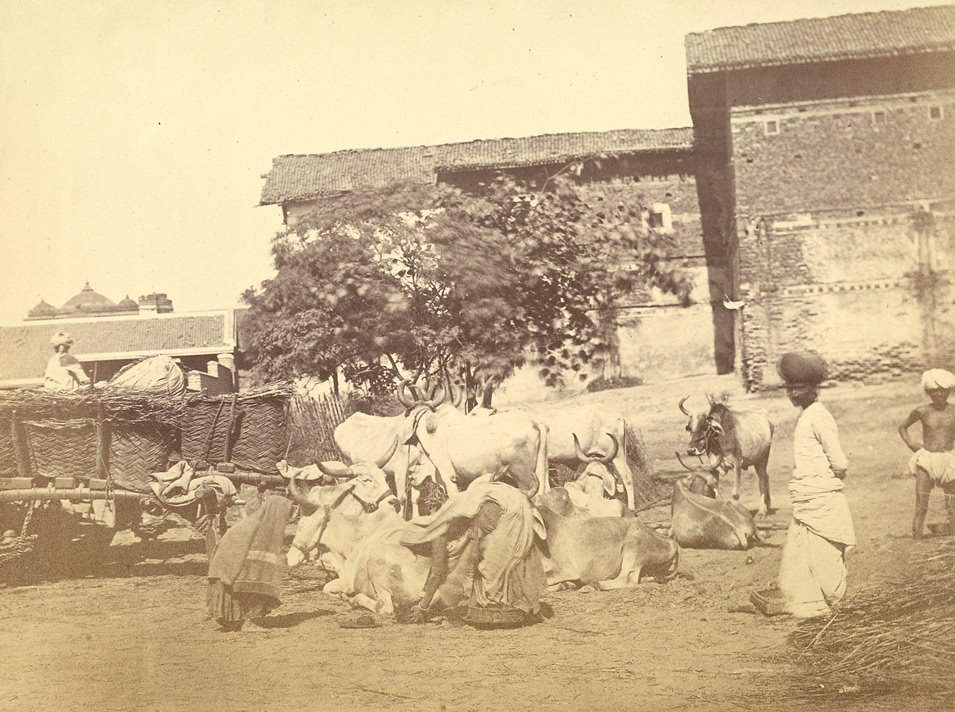 Photograph of women gathering cowdung at Ahmadabad in Gujarat, taken by Shivashanker Narayen in c. 1870, from the Archaeological Survey of India. Narayen contributed to the book 'The People of India', published by the India Museum in 1868-75. After photography was introduced into India in the 1840s it rapidly grew in popularity, particularly as a means to record the vast diversity of people and their dress, manners, trades, customs and religions. Cow dung is collected and made into flat round 'patties' which are dried on walls and roofs and then sold as fuel and used extensively on cooking fires and for heating. It has many other uses, including fertiliser and as a flooring material when mixed with mud and water.